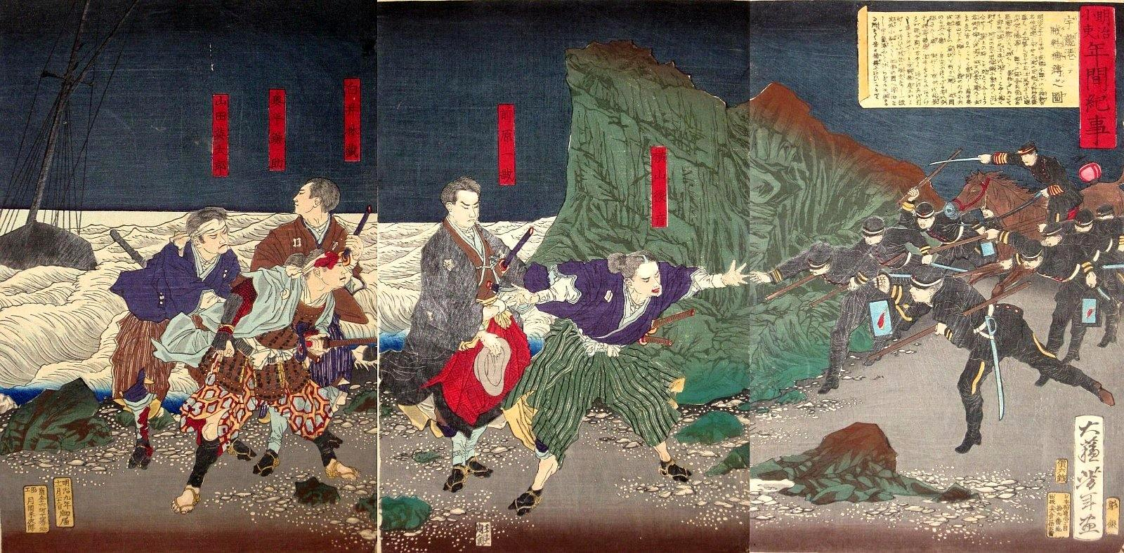 An ukiyo-e of Maebara Issei, the leader of Hagi Rebellion, arrested at Port Uryū.